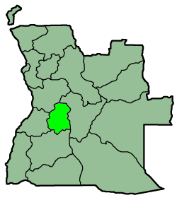 A map from province Huambo, Angola